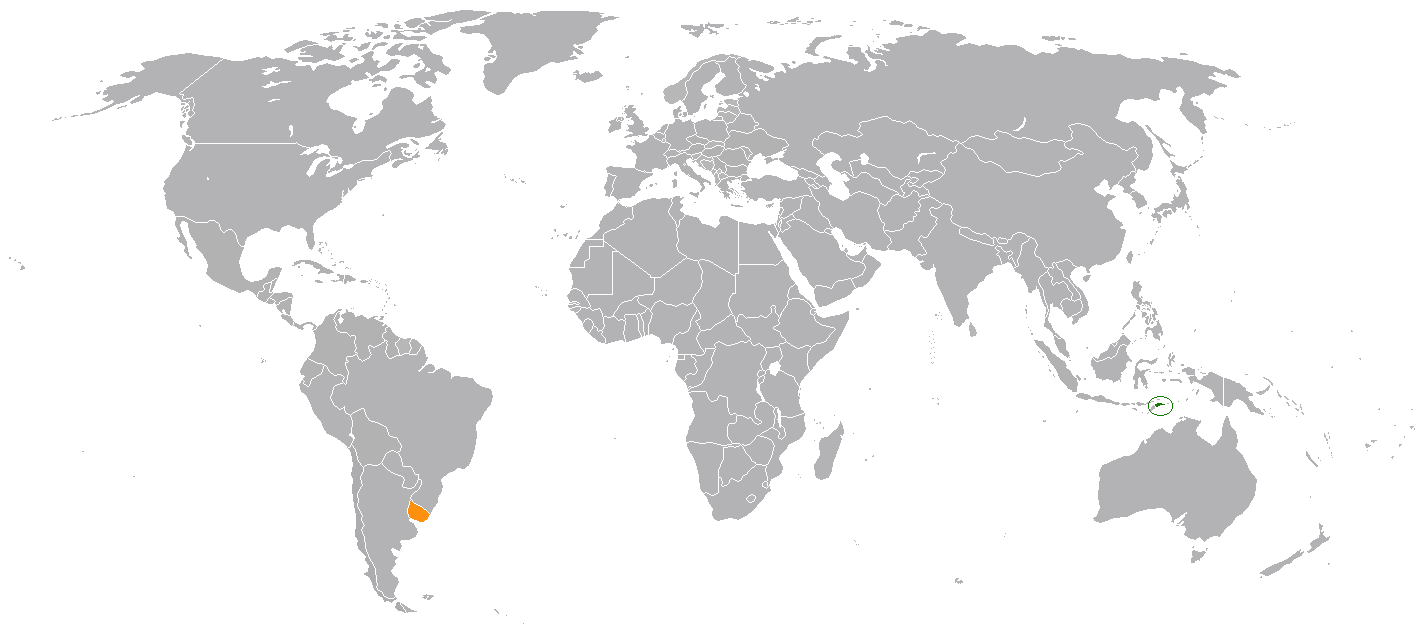 Map showing locations of both East Timor and Uruguay